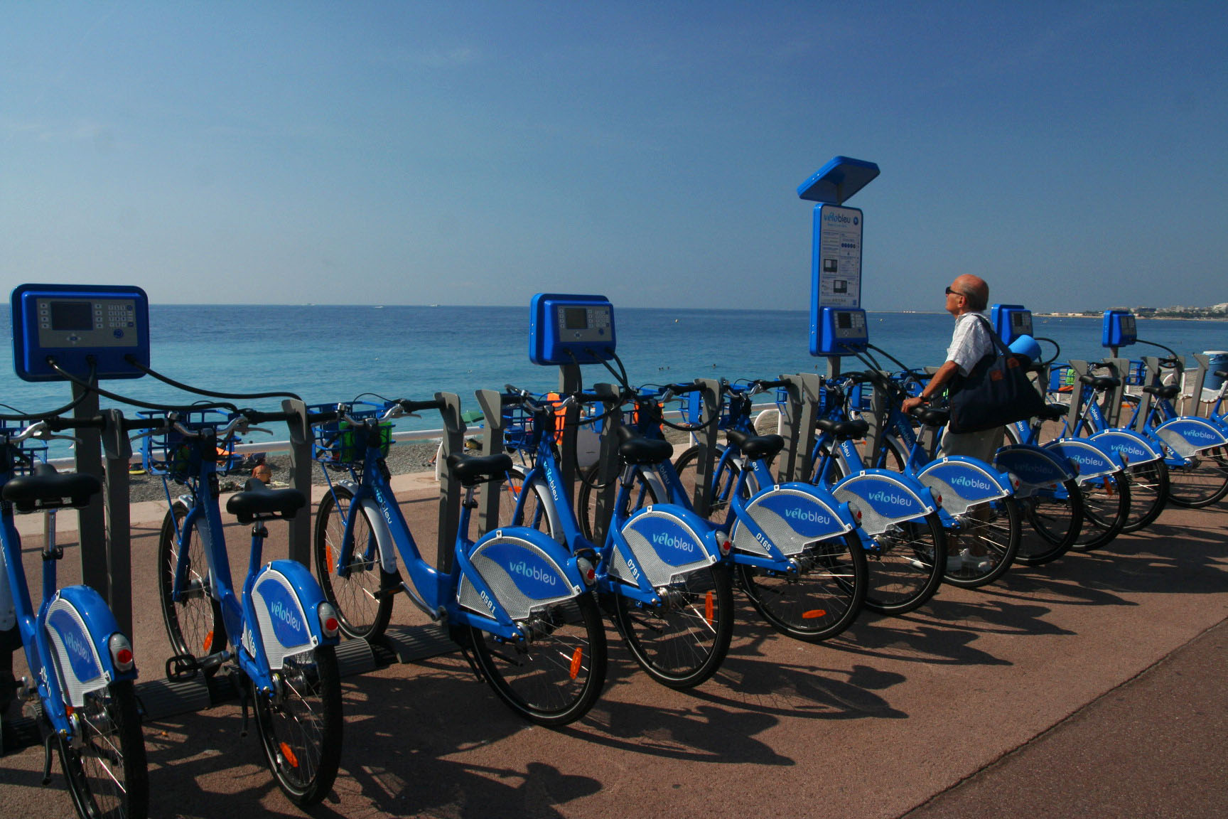 Bicycle rack ("Vélo bleu") on the Promenade des Anglais in Nice, France.